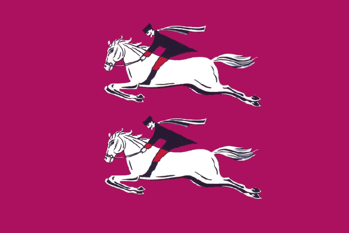 Dyadkovskoe (Krasnodar krai), flag